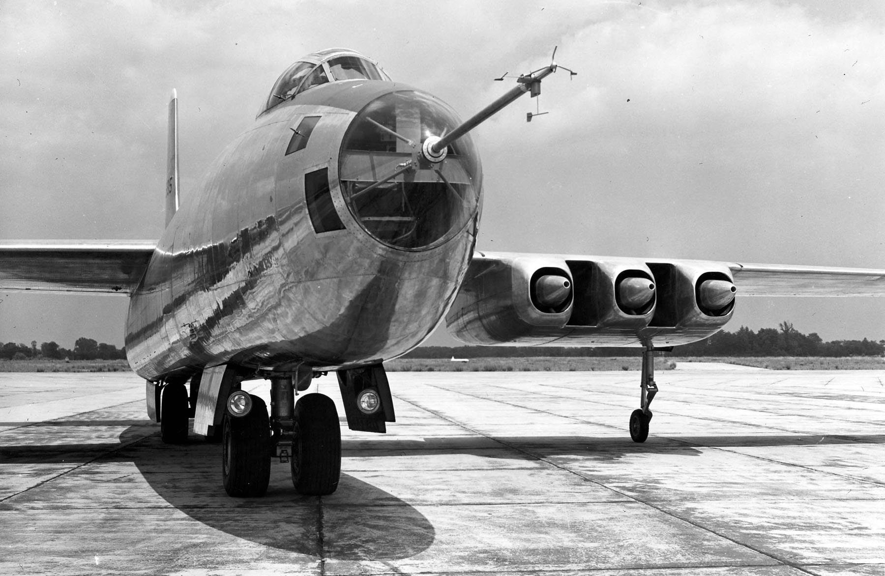 Martin XB-48, close view of nose